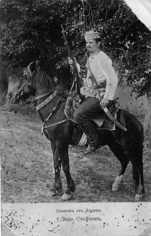 Portrait of IMARO member Dzole Gergev Stoychev